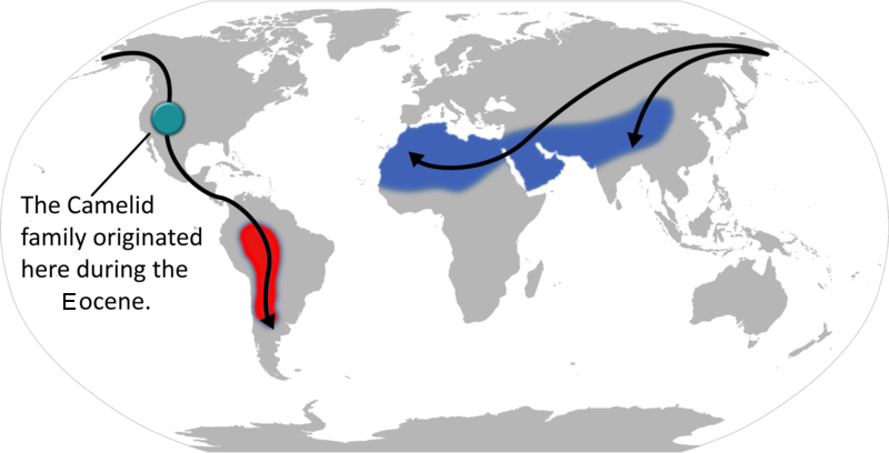 correction of previous image (Eocene in stead of Pleistocene)